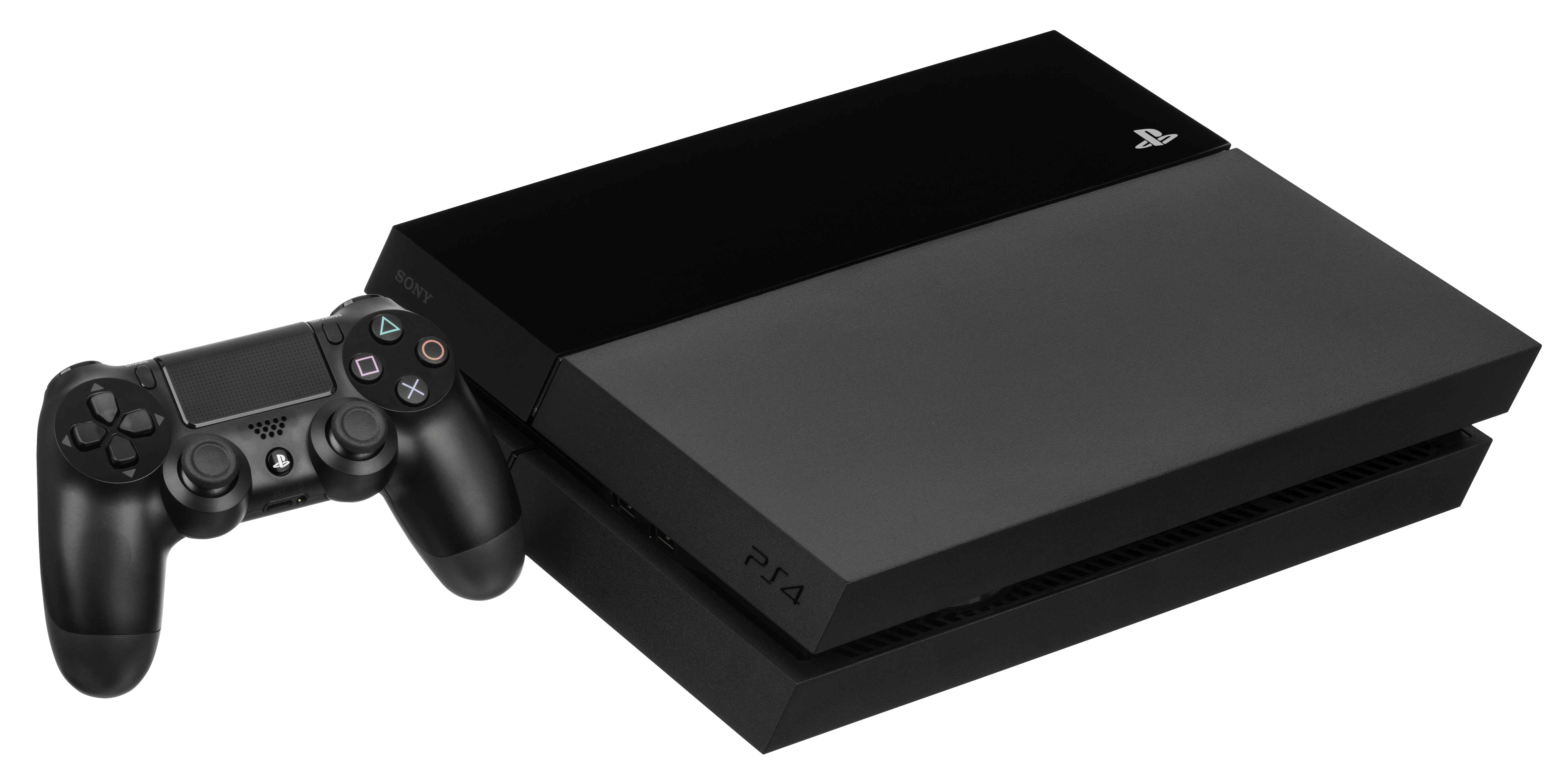 The PlayStation 4 (PS4) gaming console made by Sony. Released on 11-15-2013 in North America it is an eighth generation system and competes with the Microsoft Xbox One and the Nintendo Wii U. This console is shown with the DualShock 4 controller that is included with the system.